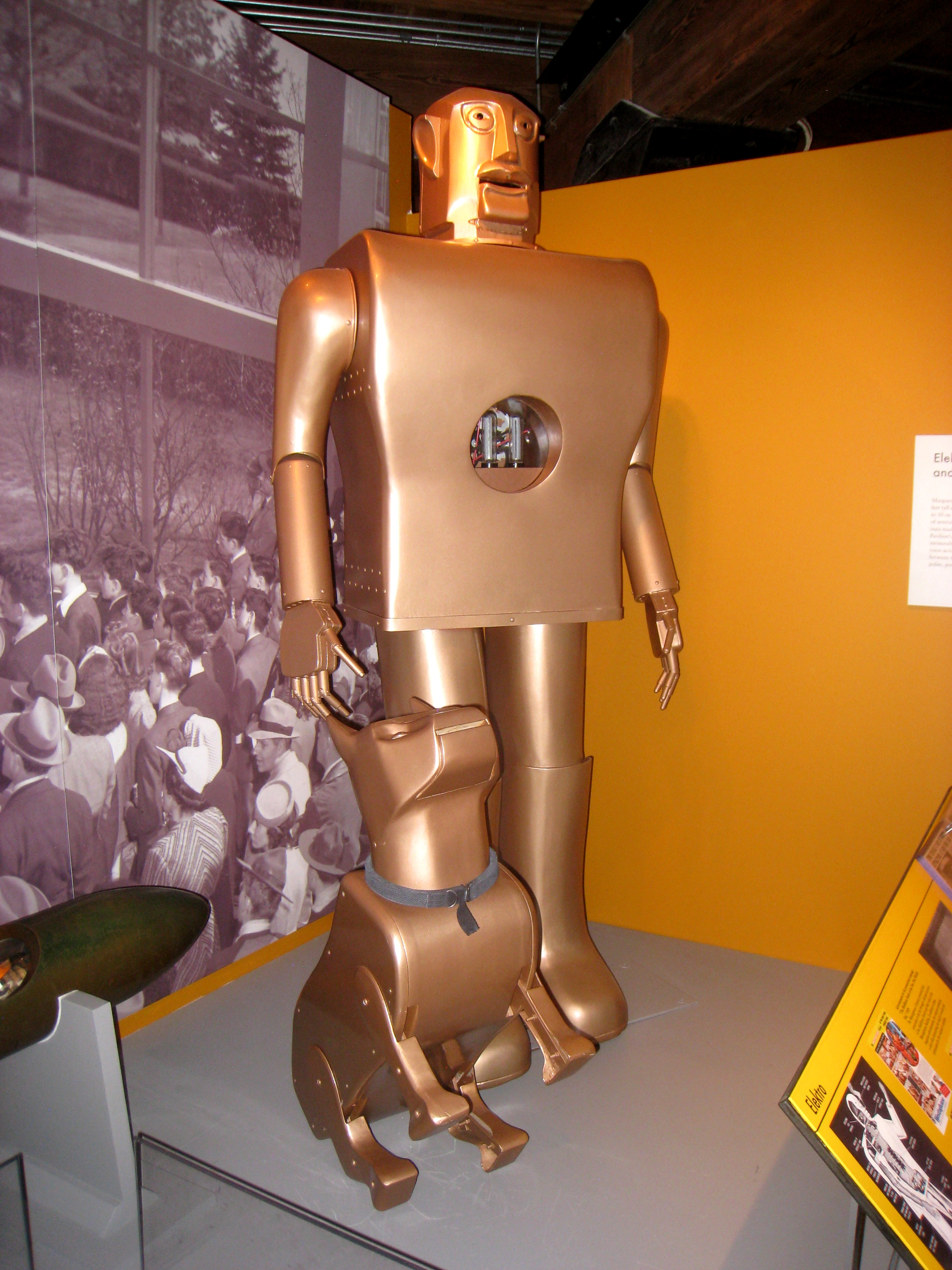 Elektro the Moto-Man and his Little Dog Sparko; created by Westinghouse Electric Company for the 1939 World's Fair. Exhibit in the Senator John Heinz History Center, 1212 Smallman Street, Pittsburgh, Pennsylvania, USA. There were no restrictions on photography in the museum collections.